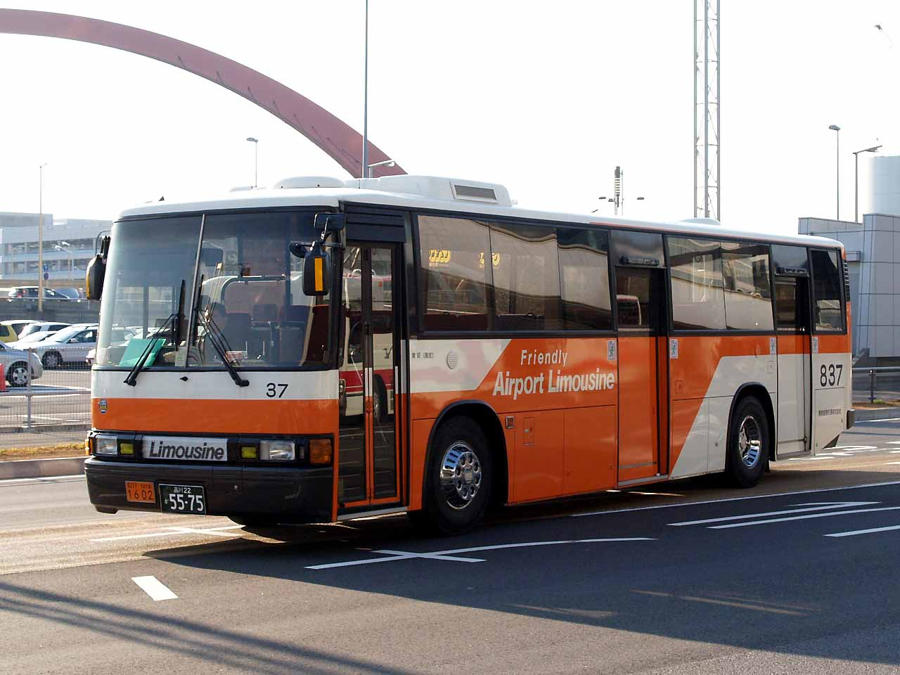 A "ramp bus" of standard width for Airport Transport Service (Tokyo Kuko Kotsu: Airport Limousine). Model: Hino Blue Ribbon (KC-HU2MPCA: front face is RU6 look) License plate: TKS22 KA5575（品川22か5575） Place: Tokyo International Airport: Ota ward, Tokyo Japan